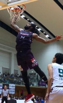 Chukwudiebere Maduabum here scoring during a game.